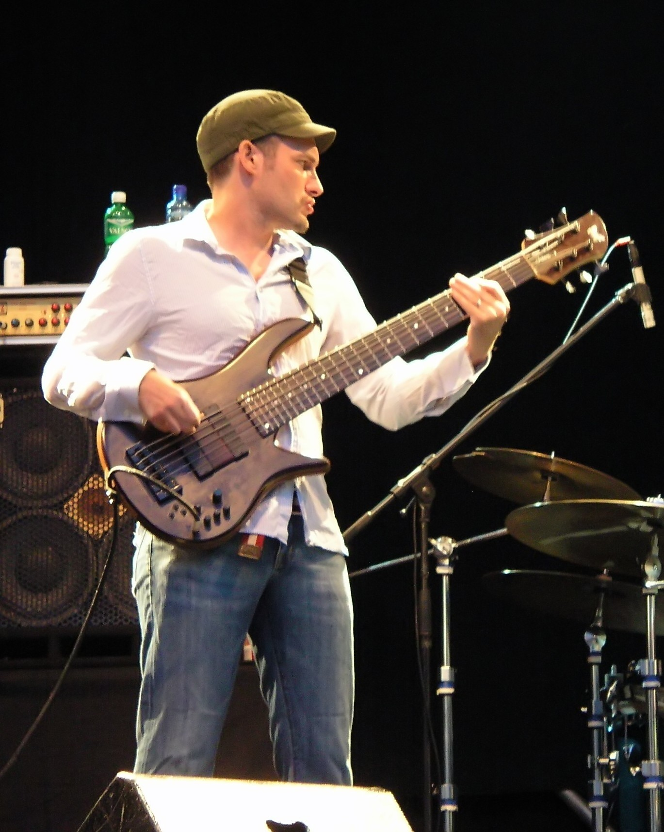 Tony Grey on bass, Hiromi Uehara in Mendriso, 2007-06-30